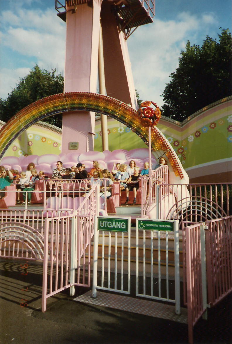 The amusement ride Rainbow at Liseberg.